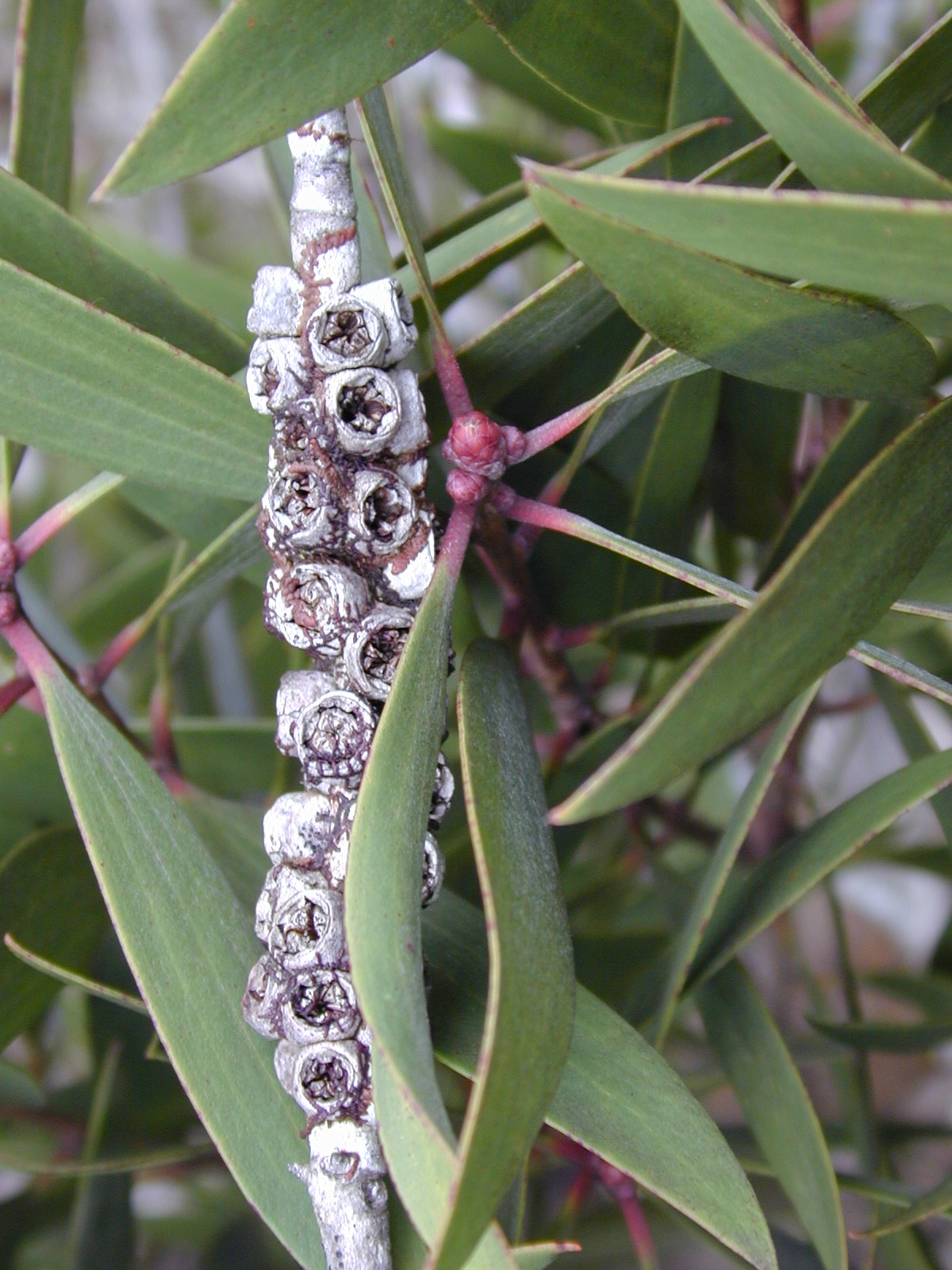 Melaleuca quinquenervia (fruits). Location: Maui, Wahinepee